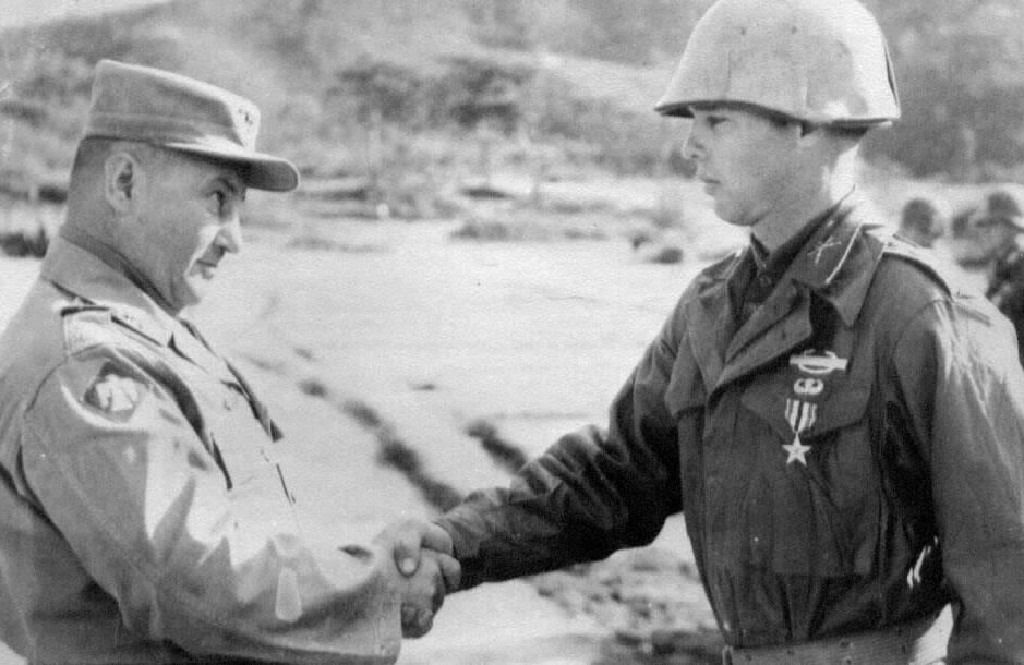 General Wayne C. Smith issuing the Silver Star after the Battle of Triangle Hill in November, 1952.